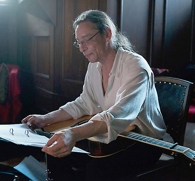 Michael Lösel bei einem Auftritt